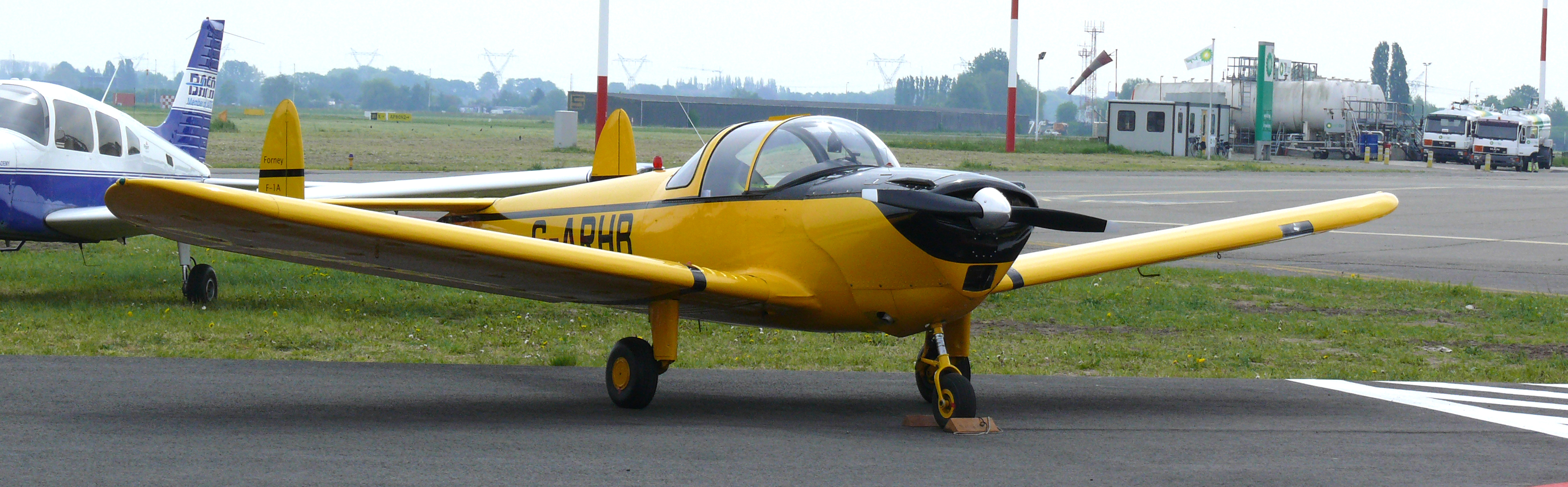 Forney F-1A Aircoupe (G-ARHB) during the Stampe Fly-In 2010. The ERCO Ercoupe is a low wing monoplane first manufactured by the Engineering and Research Corporation (ERCO) shortly before World War II, production -by several manufacturers Forney amongst them- continued after WWII by several other manufacturers until 1967.